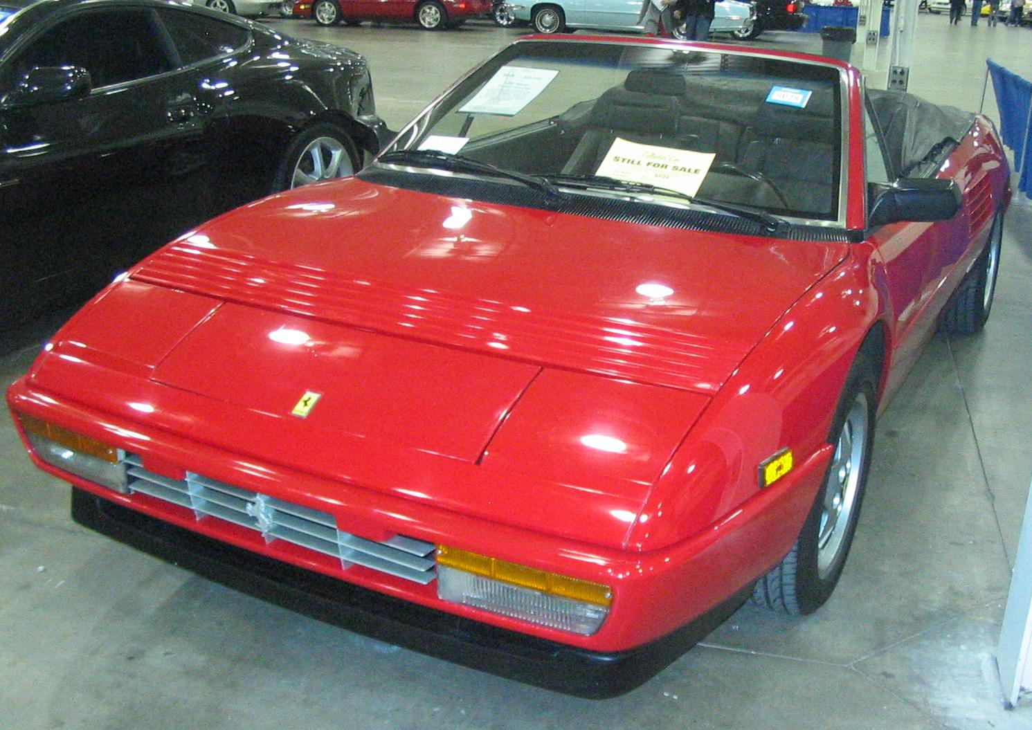 1992 Ferrari Mondial photographed in Mississauga, Ontario, Canada at the Toronto Classic Car Auction of spring 2012.